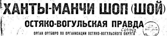 Logo of Ostjako-Vogulskaya Pravda newspaper (1931)